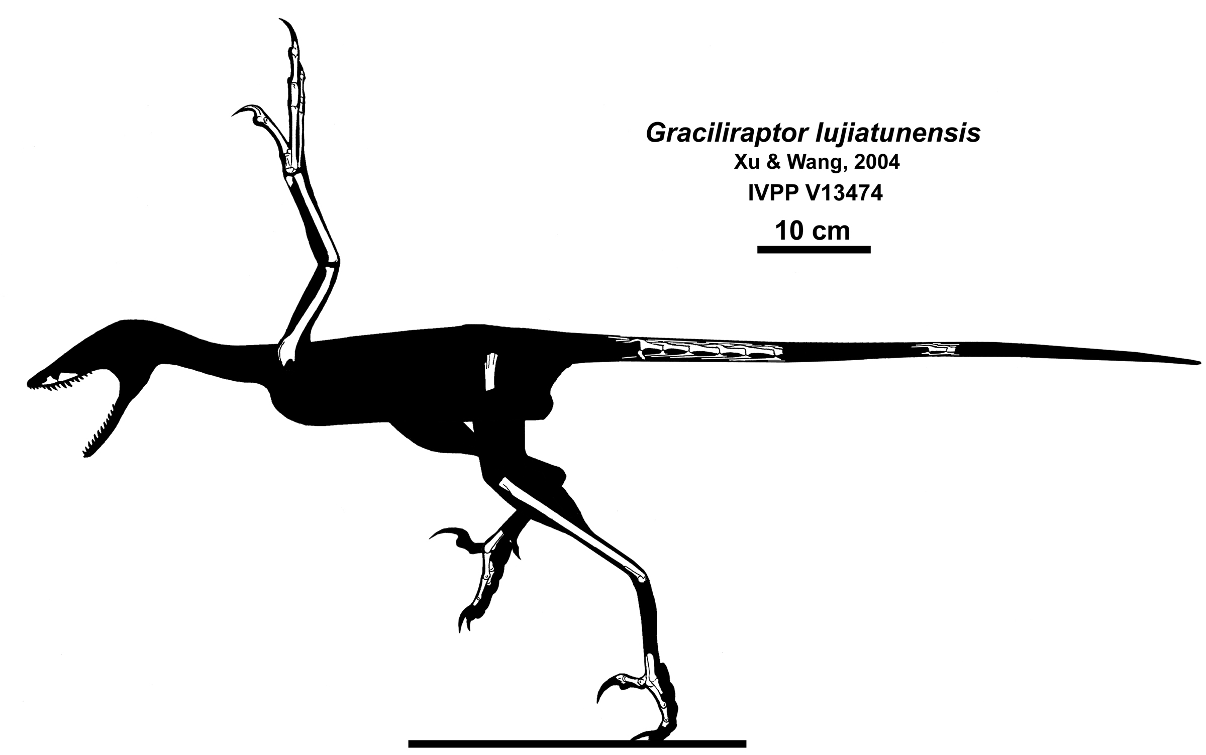 Skeletal reconstruction of Graciliraptor lujiatunensis.